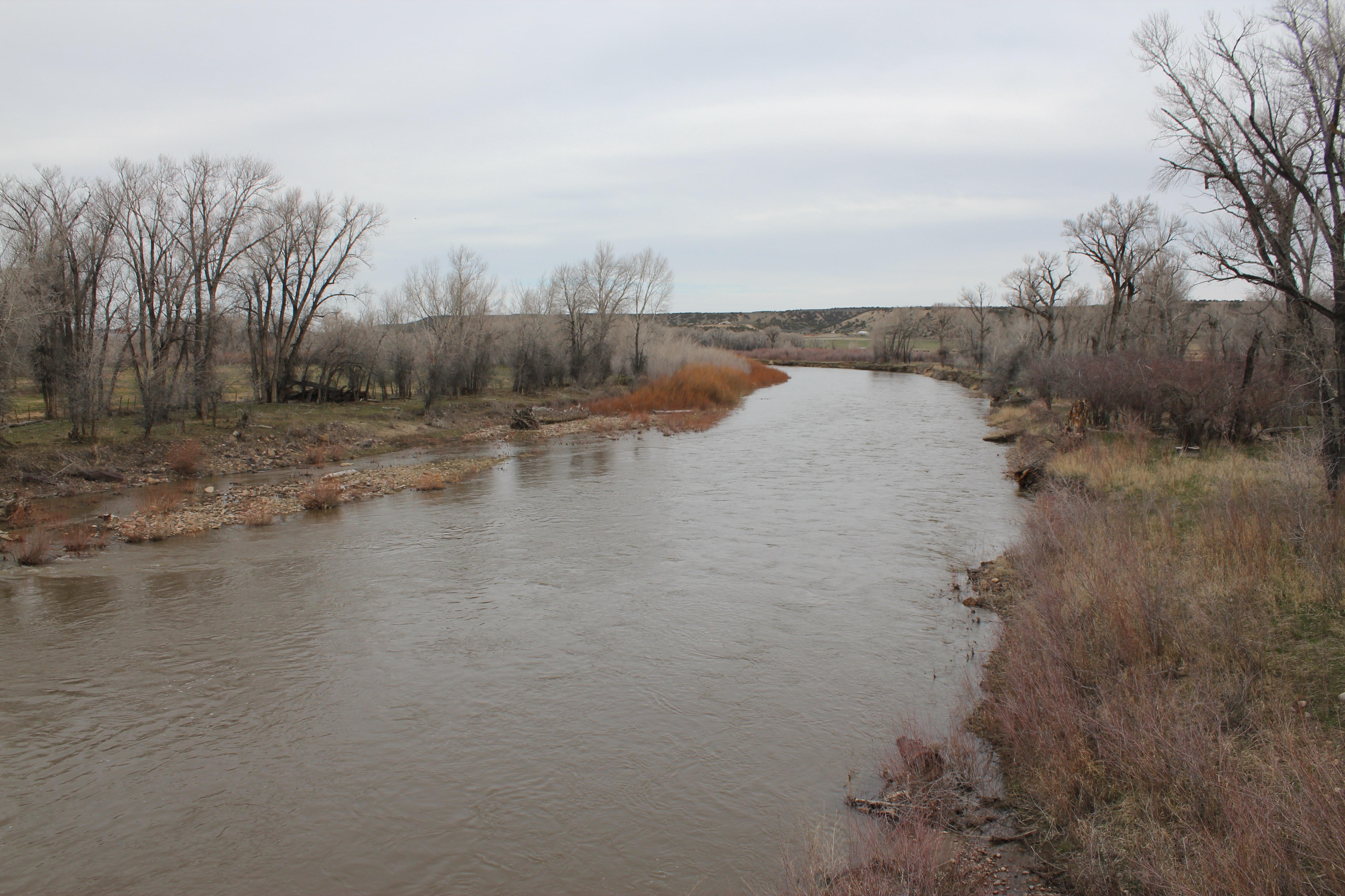 The Little Snake River in Carbon County, Wyoming. The view is from a bridge on Wyoming Highway 70 that goes over the river near Dixon, Wyoming.